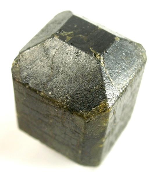 Wiluite Locality: Vilyui River Basin (Vilui River Basin; Wilui River Basin), Saha Republic (Sakha Republic; Yakutia), Eastern-Siberian Region, Russia (Locality at ) Size: 2.5 x 1.7 x 1.5 cm. A doubly terminated, sharp crystal of the very rare species wiluite, from the Type Locality. This lustrous, dark olive-green, floater crystal is pristine. One termination has a pyramidal termination and the other end is a modified pinacoid. Very interesting. These crystals originally sold as vesuvianite, until they were determined to be a new species. Ex. Carlton Davis Collection.